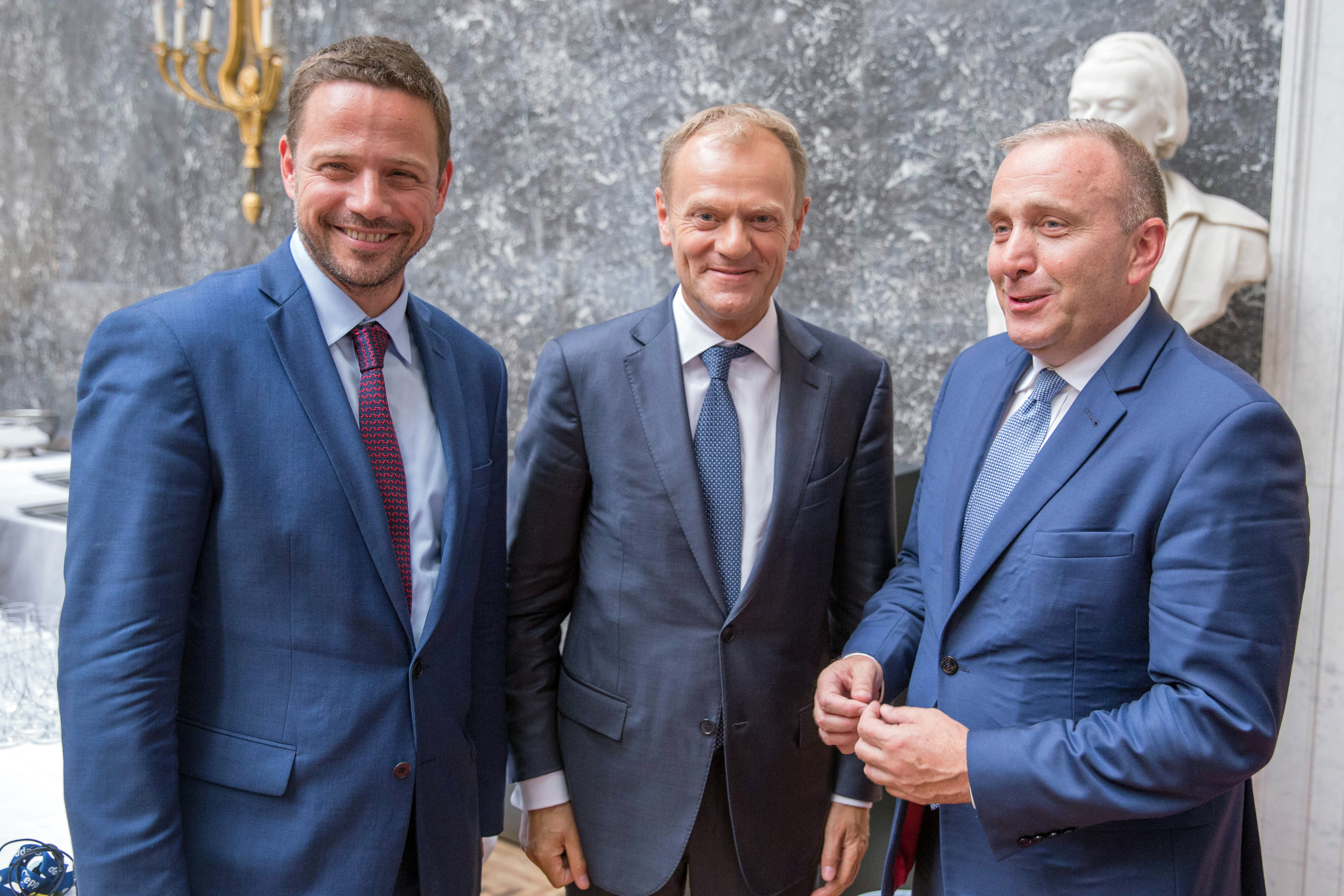 European People's Party Summit in Brussels, June 2017.